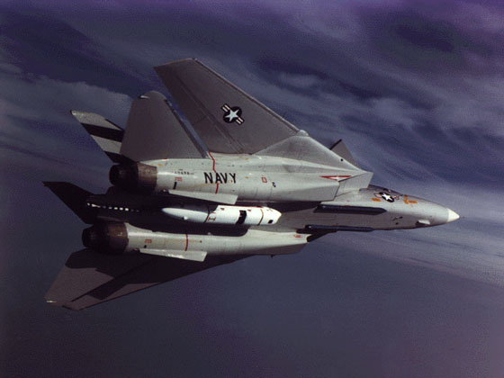 A U.S. Navy Grumman F-14A "Tomcat" carrying a TARPS (Tactical Airborne Reconnaissance Pod System).